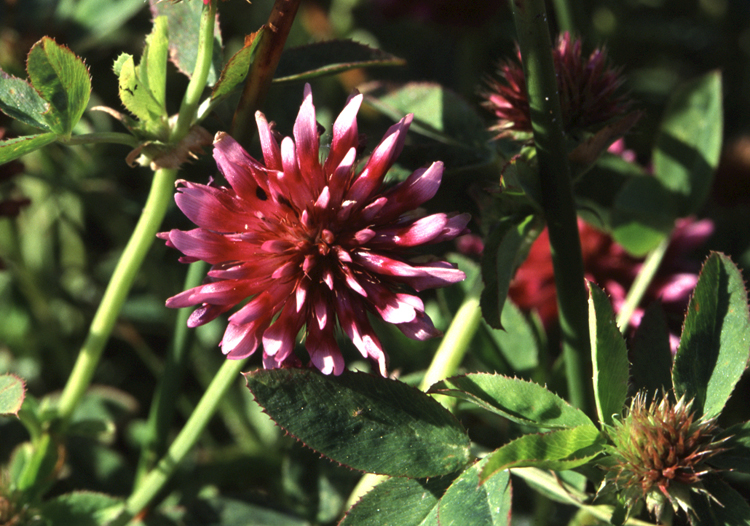 Trifolium wormskioldii at Humboldt Bay National Wildlife Refuge Complex, California, USA